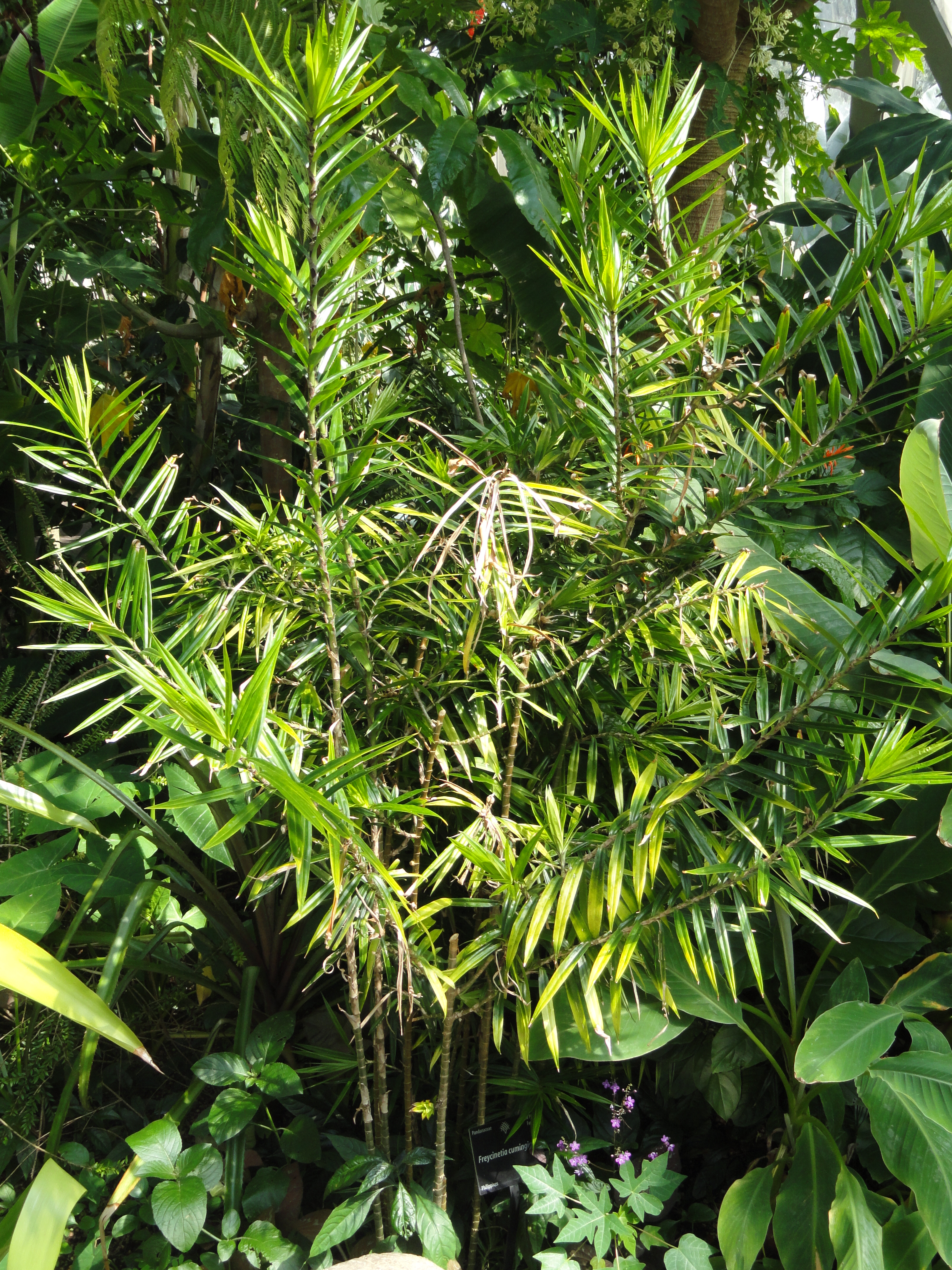 Freycinetia cumingiana. Botanical specimen in the Denver Botanic Gardens, 1007 York Street, Denver, Colorado, USA.